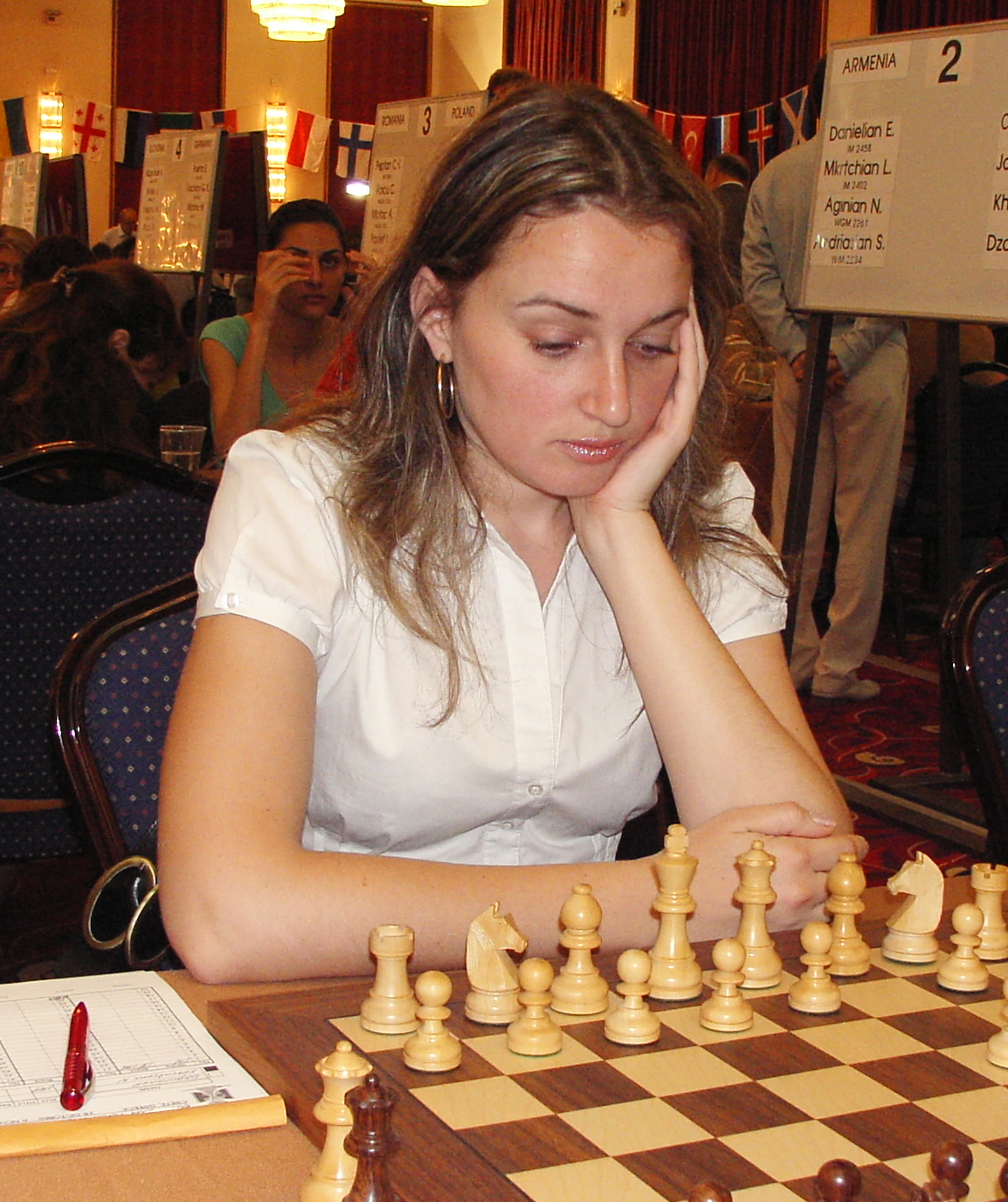 WGM Inna Gaponenko (Ukraine), Heraklion 2007